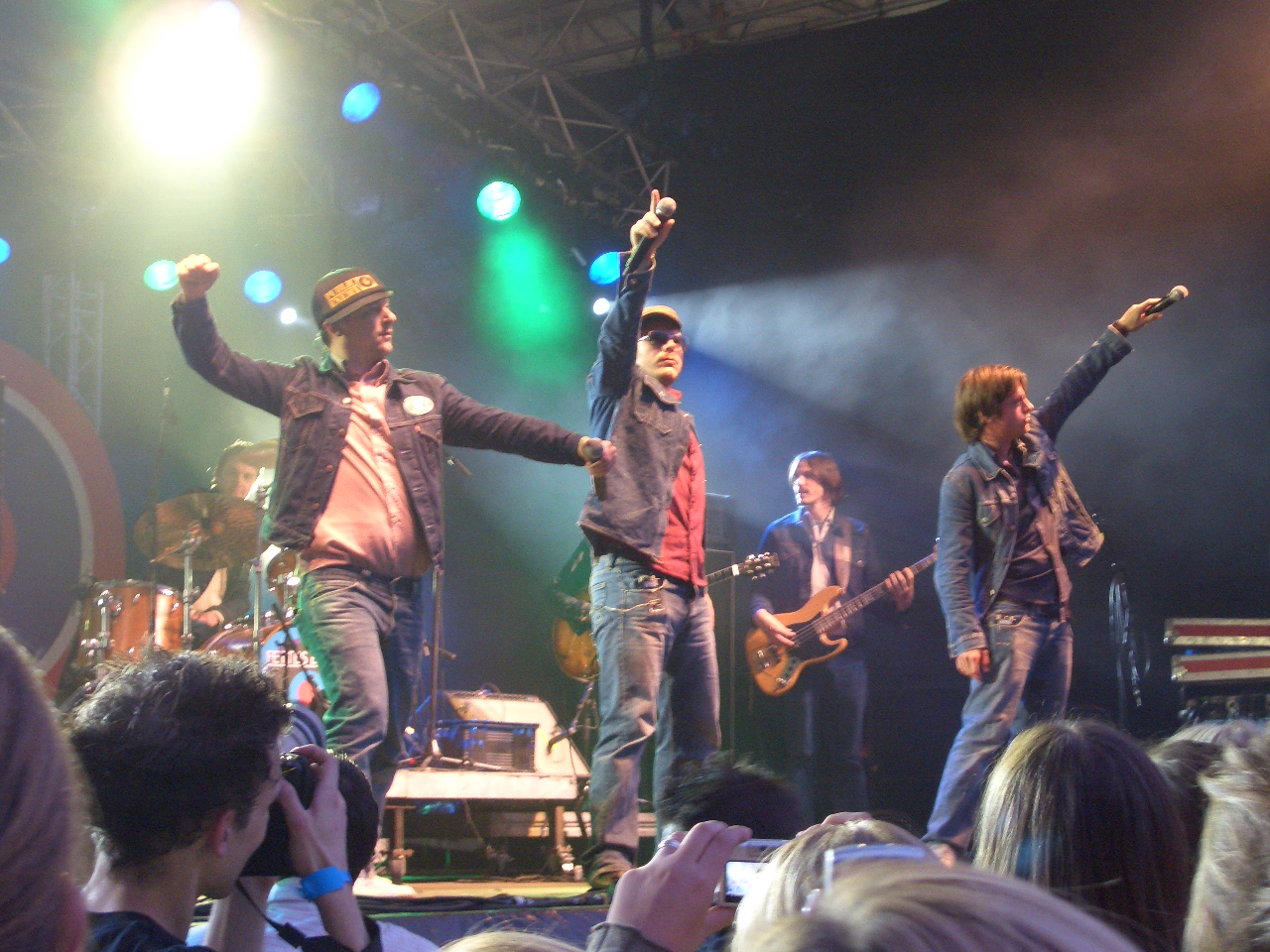 Fettes Brot in action